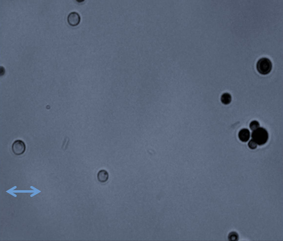 Image of a sample of cerebrospinal fluid (CSF) from patients with cryptococcal meningitis stained with trypan blue. There is a mixed population of dead and live Cryptococcal yeast cells. “Scale bar = 10 μm”